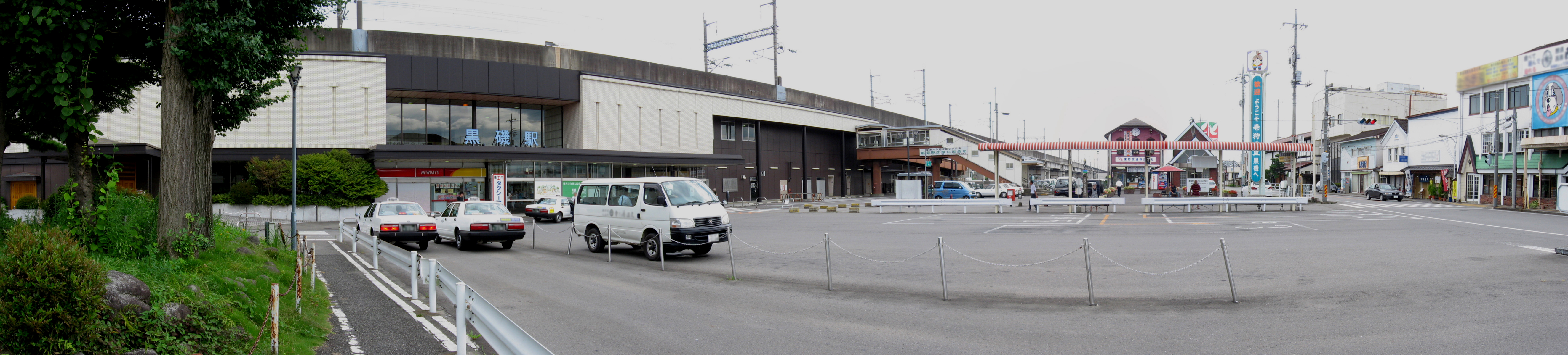 Tōhoku Main Line Kuroiso Station